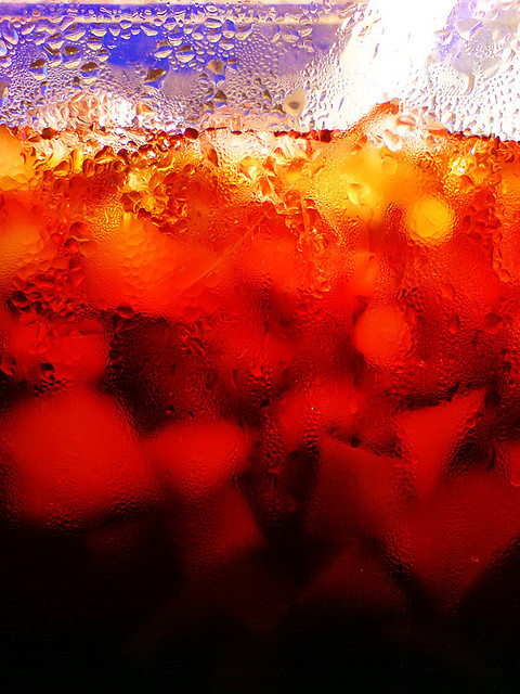 That's how yummy this sago and gulaman (tapioca and gelatin) drink is on a hot day. Yum!